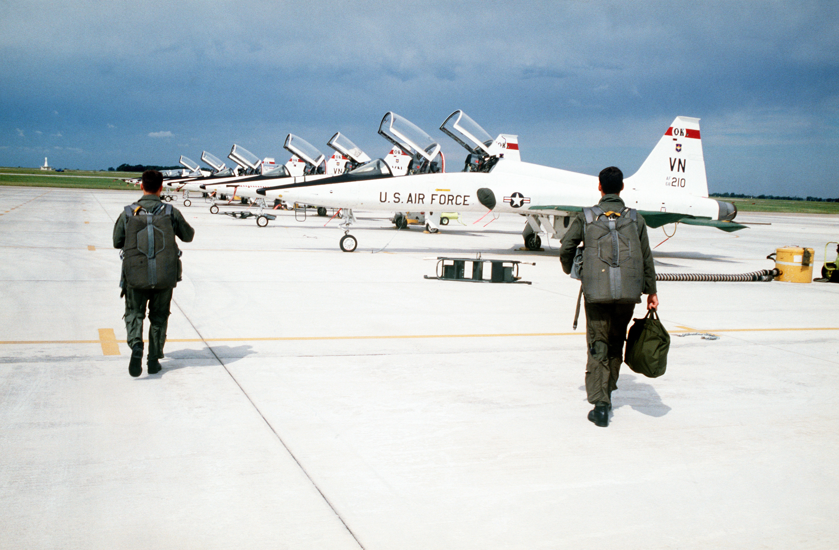 A U.S. Air Force 25th Flying Training Squadron instructor pilot and his student walk towards a Northrop T-38A-75-NO Talon to begin flight training at Vance Air Force Base, Oklahoma (USA), on 23 November 1997. The first aircraft visible (s/n 68-8210) was later converted to an T-38C.